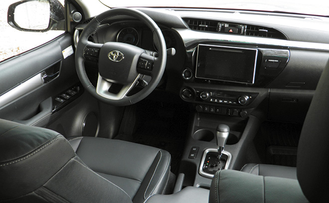 Toyota Hilux